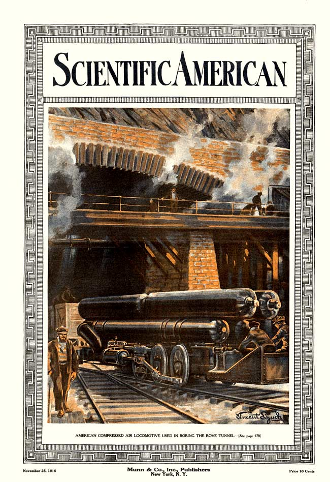 American compressed air locomotive used in boring the Rove Tunnel in France. This was Scientific American's front cover illustration 25 November 1916.